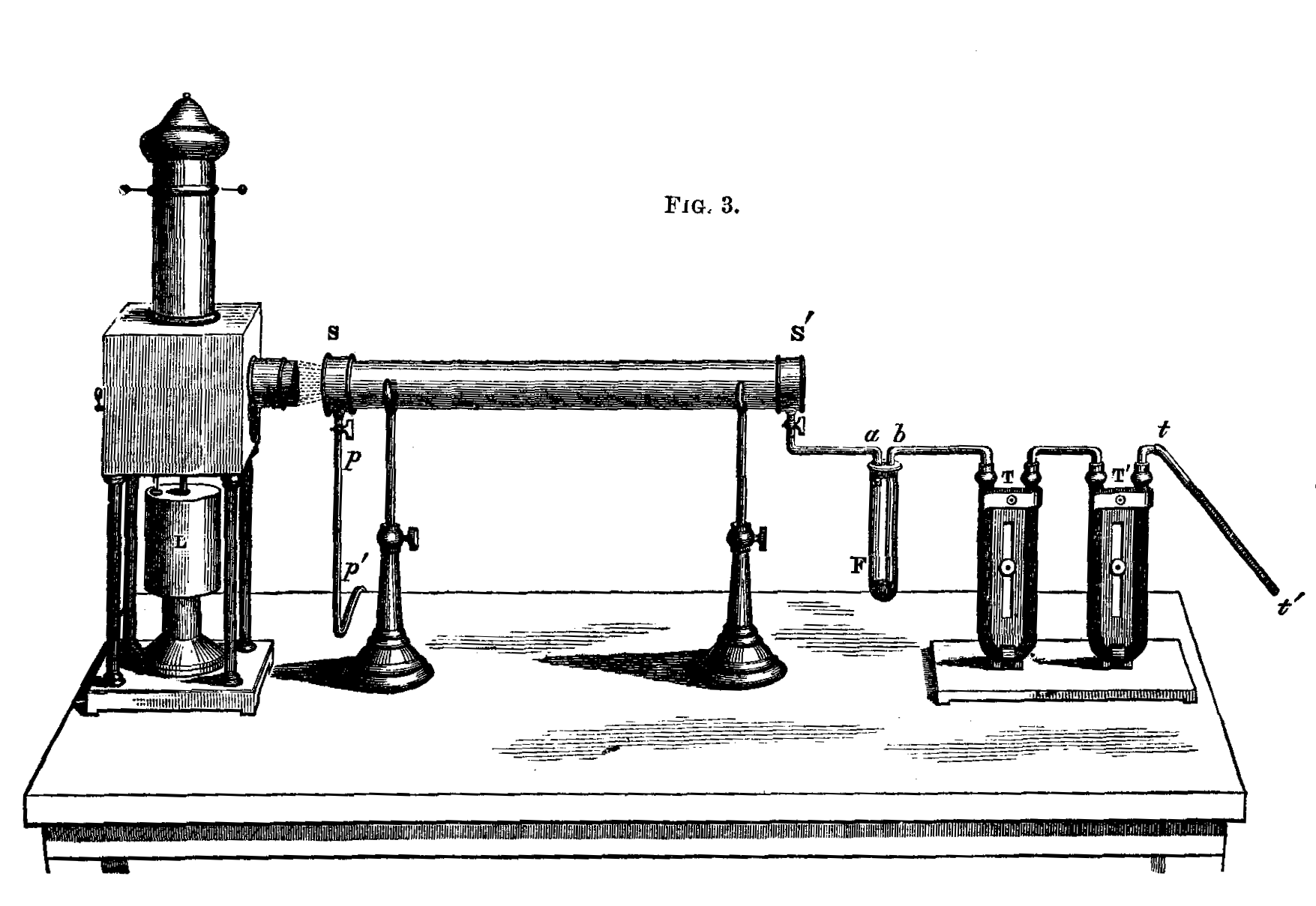 The apparatus with which John Tyndall observed the Tyndall effect: "L represents the electric lamp, s s' the experimental tube, pp' the pipe leading to the air-pump, and F the test-tube containing the volatile liquid. The tube t t' is plugged with cotton-wool intended to intercept the floating matter of the air; the bent tube T' contains caustic potash, the tube T sulphuric acid, the one intended to remove the carbonic acid and the other the aqueous vapour of the air."